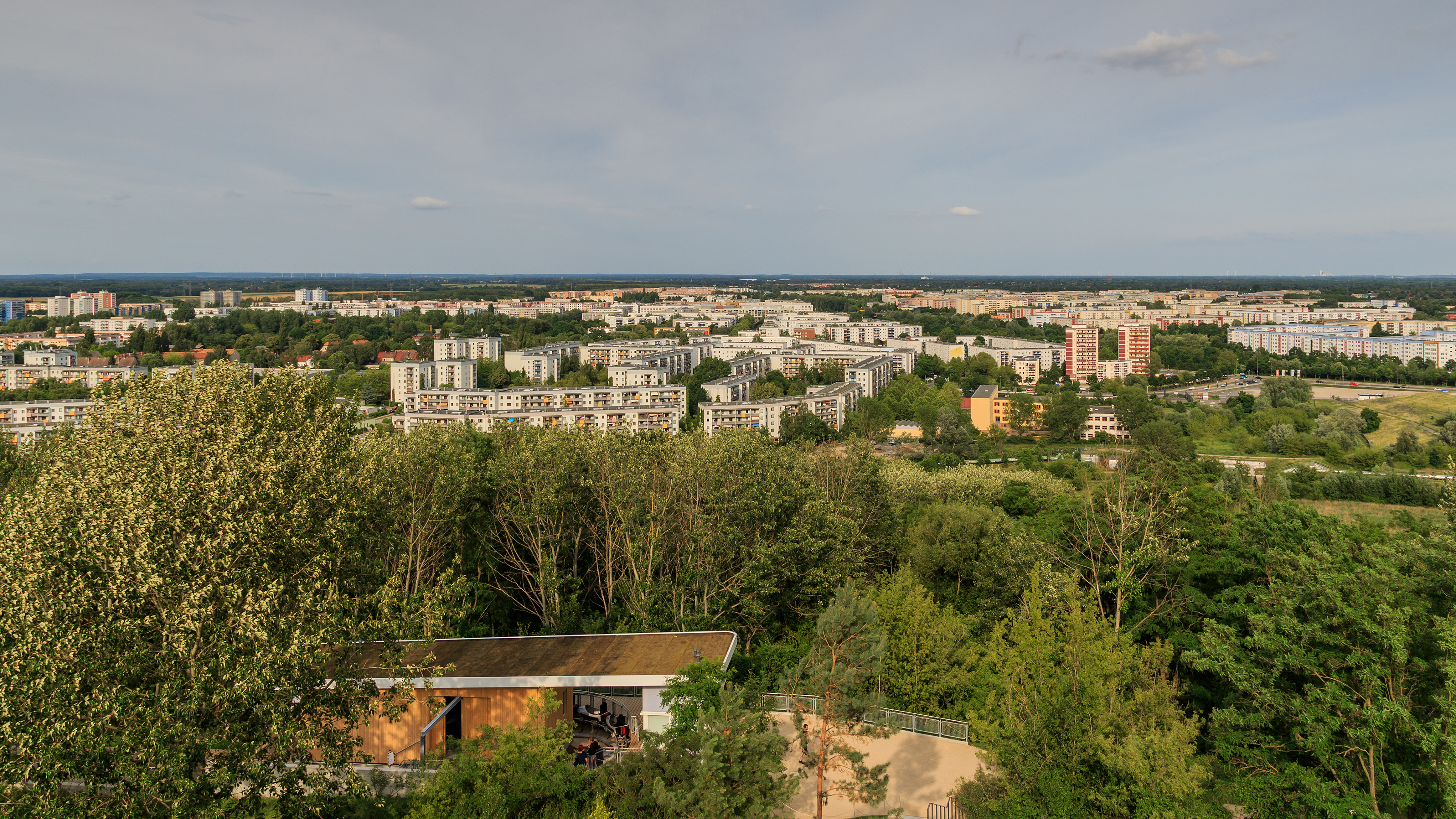 Kienberg Marzahn and surroundings (IGA 2017 area) in Berlin (Germany)